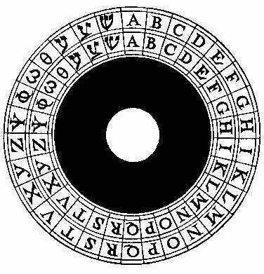 Application of two combinatorial alphabetic wheels